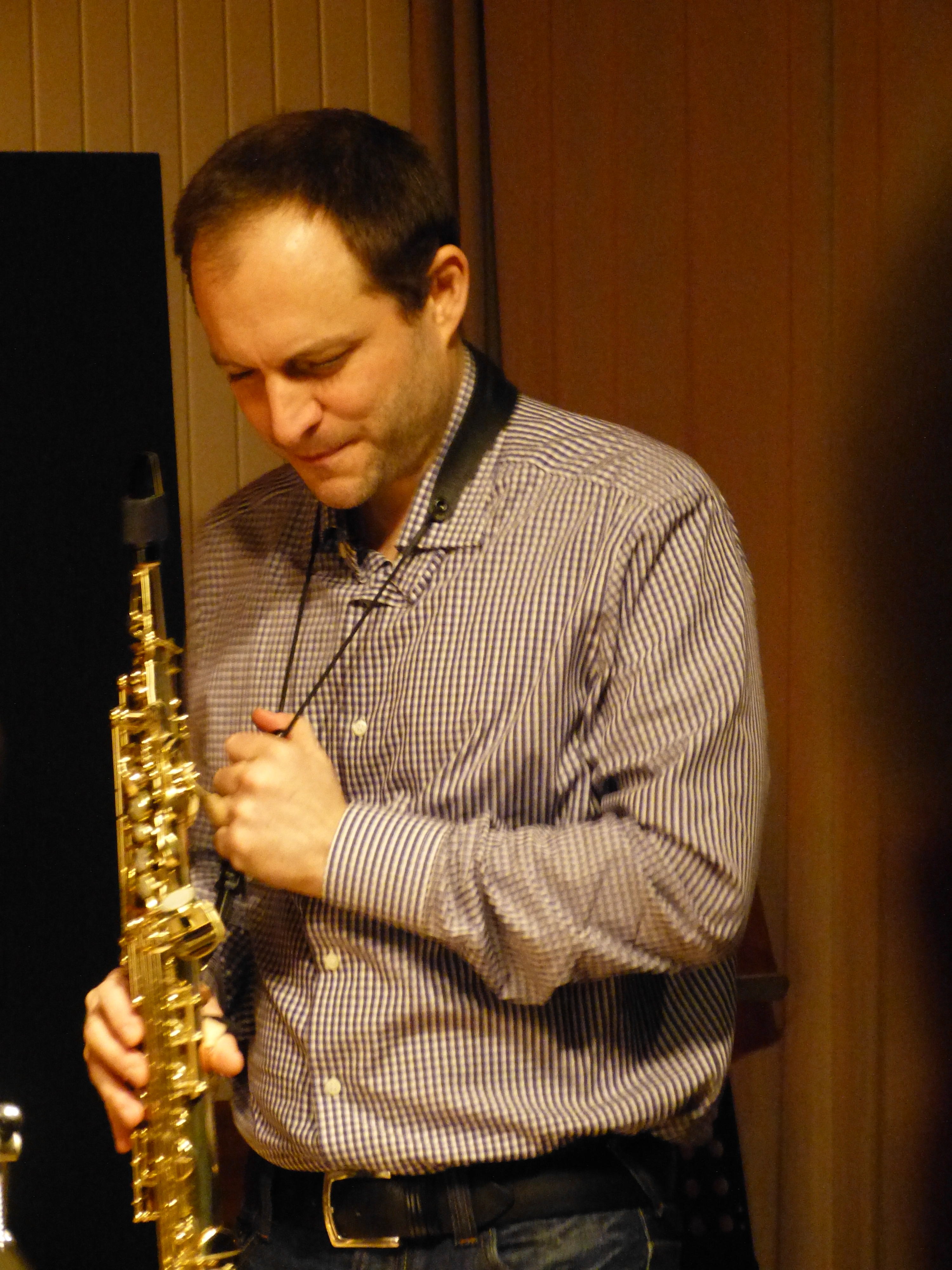 Jürg Wickihalder in concert with Irene Schweizer at Loft (Cologne), Germany, February 7th, 2014